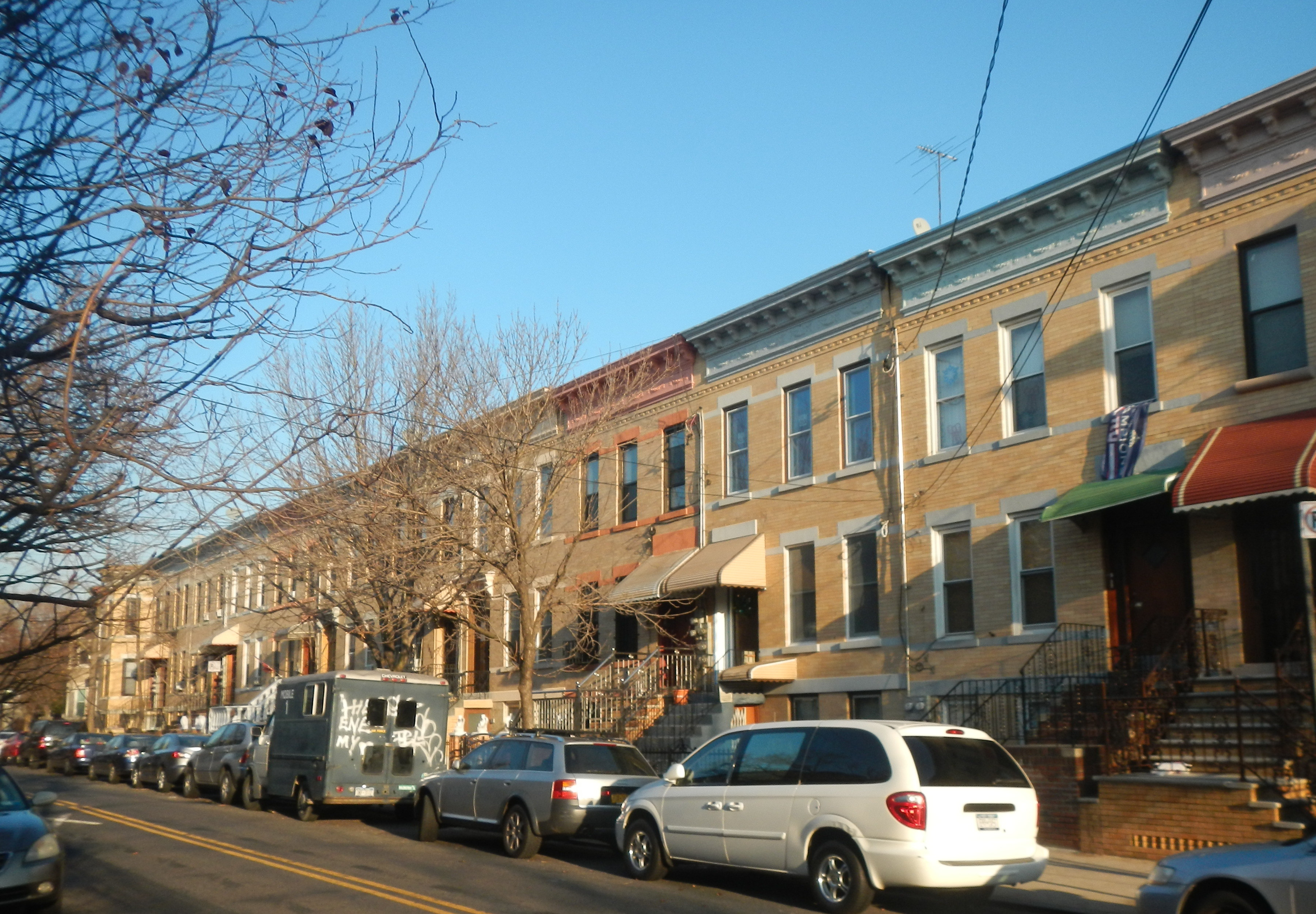 Looking east at row houses on De Kalb Avenue on a sunny afternoon.